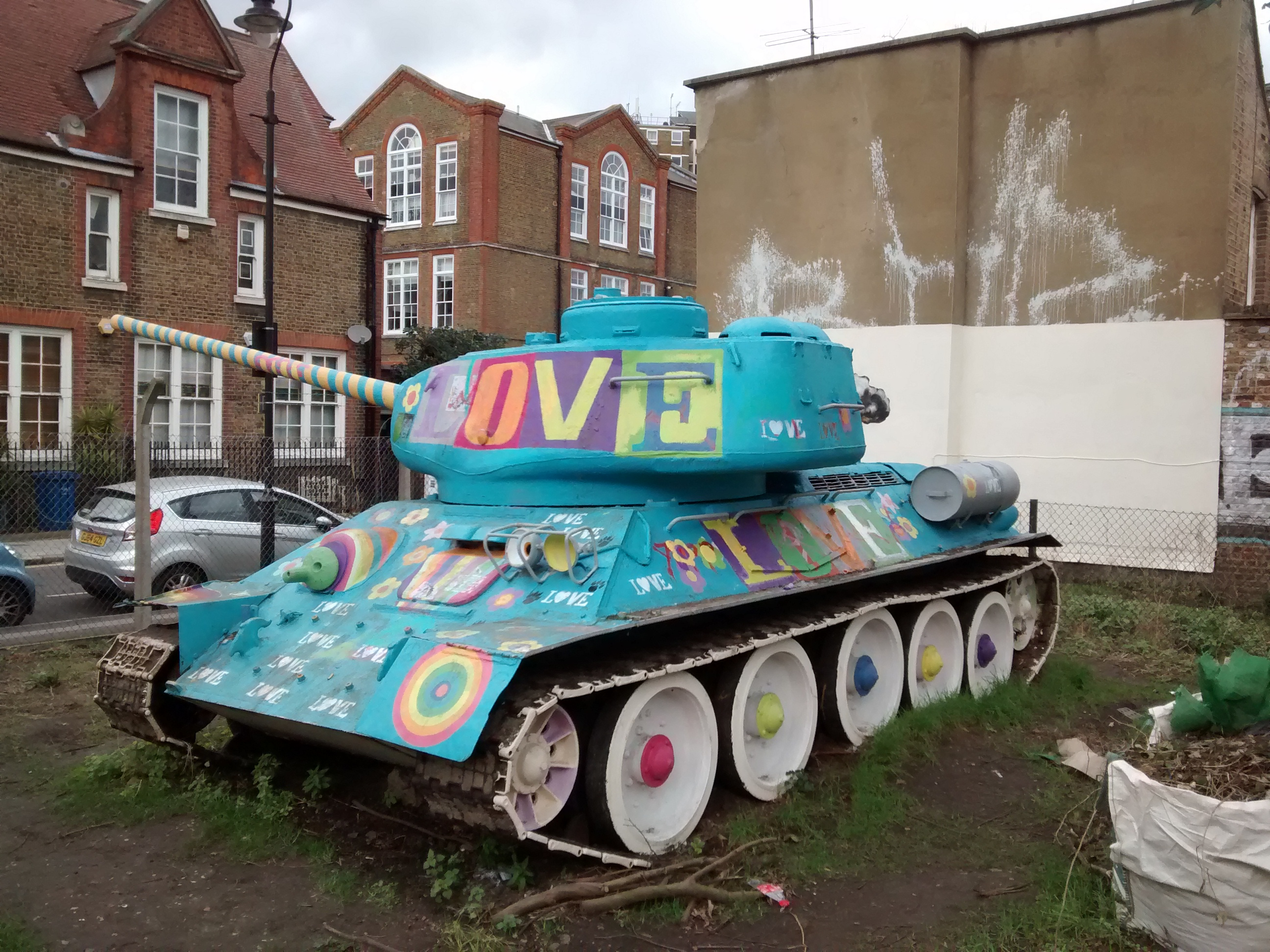 The tank's appearance since late 2015